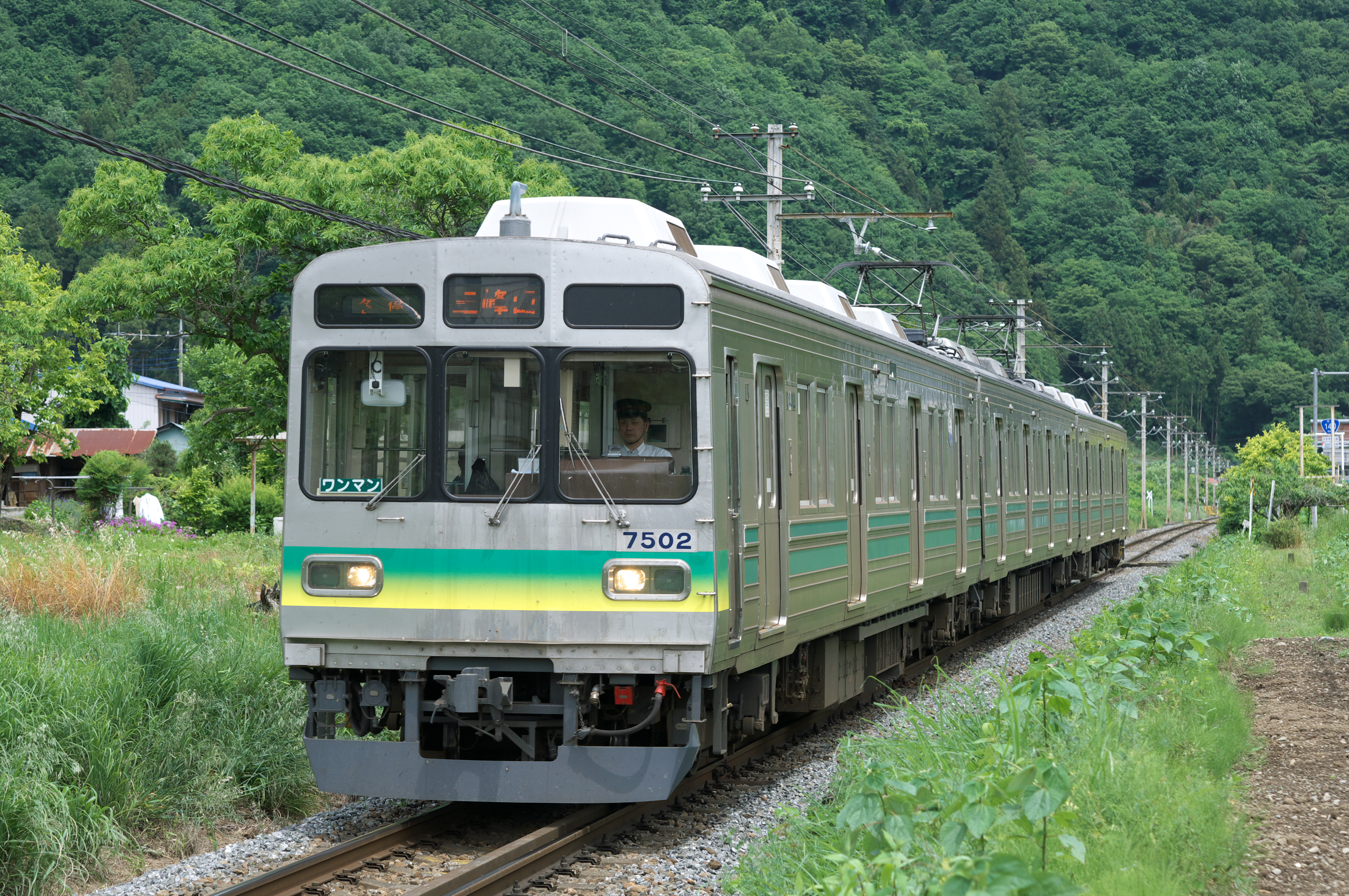 Chichibu Railway 7500 series EMU set 7502 between Hagure and Higuchi stations